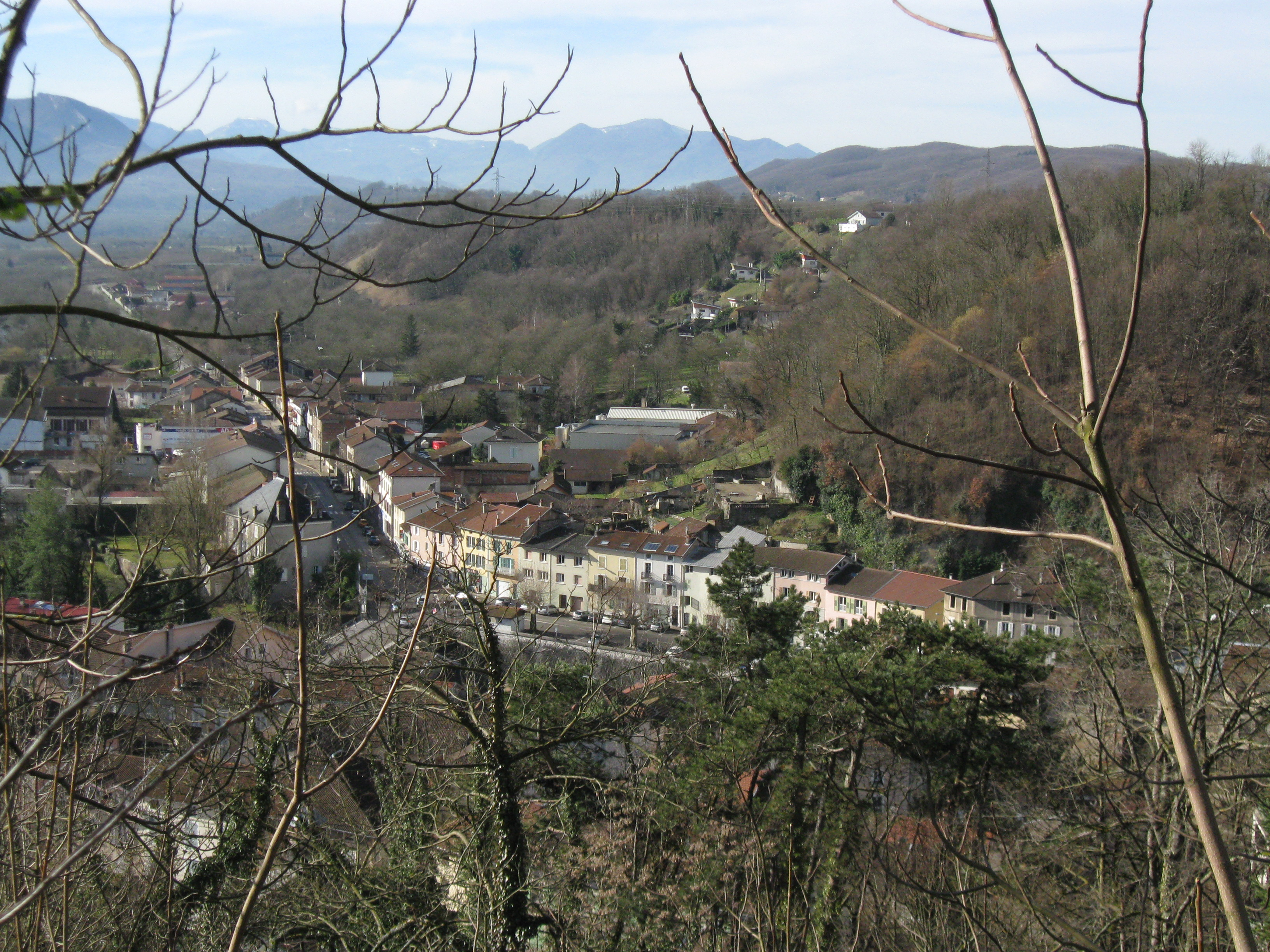 Paysage : vue de Vinay prise à partir de Mont Vinay. Le quai Jean Jaurès vu de haut.